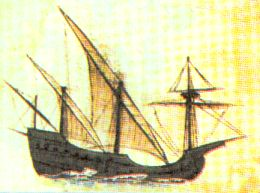 Square Rigged Caravel (Portugal)